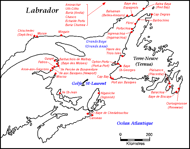 Fishing sites of Basques, French and Spaniards in the 16th and 17th centuries.